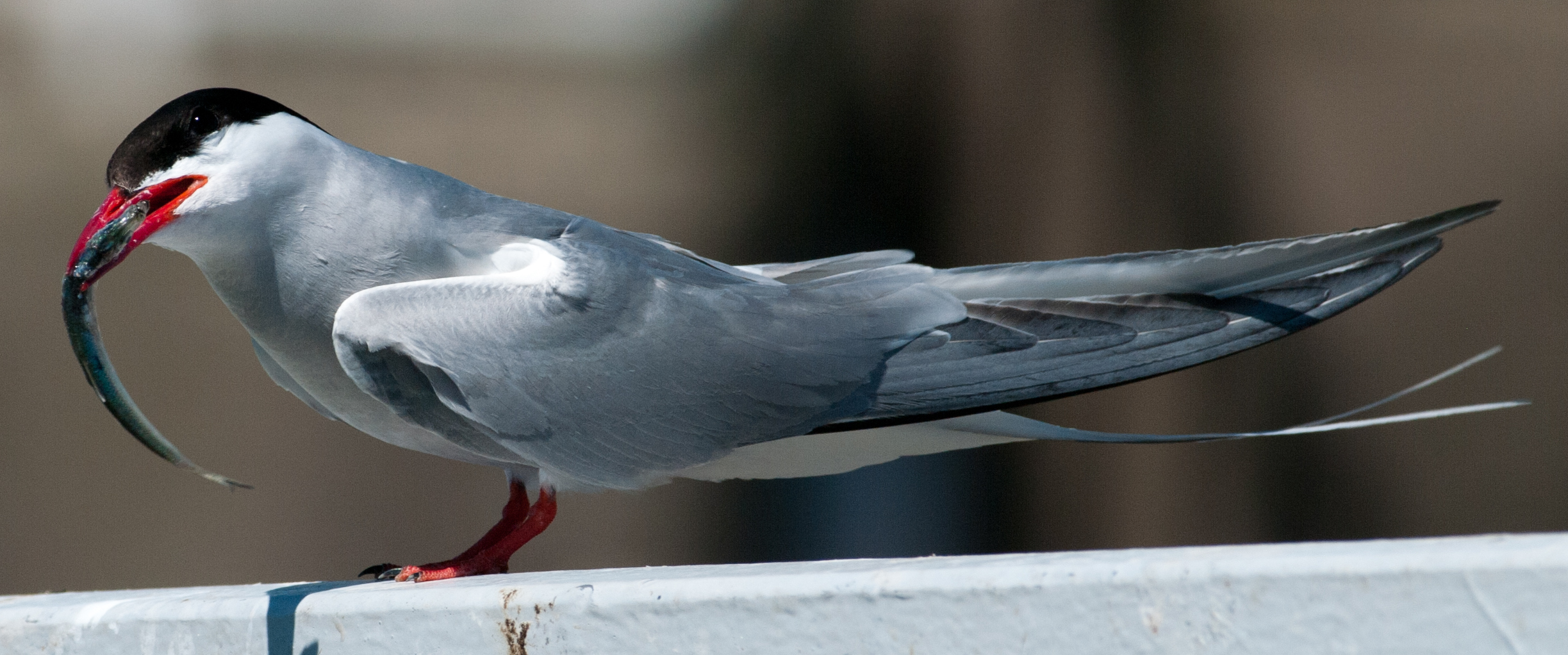 Birds at the Eider barrage, Kreis Dithmarschen, Germany